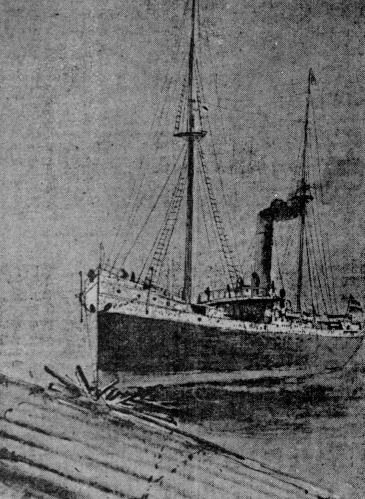 On February 4, 1906, the SS Columbia collided with a log raft in the Columbia River in dense fog. The ship was luckily undamaged, but the fog convinced the captain to drop anchor until the fog cleared.